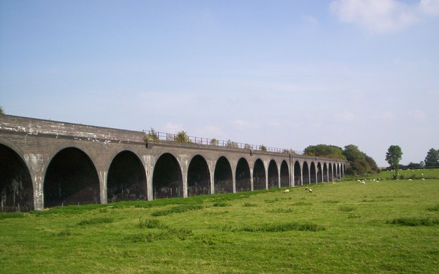 Railway viaduct to the Trent Viaduct on the derelict Lancashire, Derbyshire & East Coast Railway leading up to the bridge over the Trent